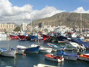 Los Cristianos Harbour